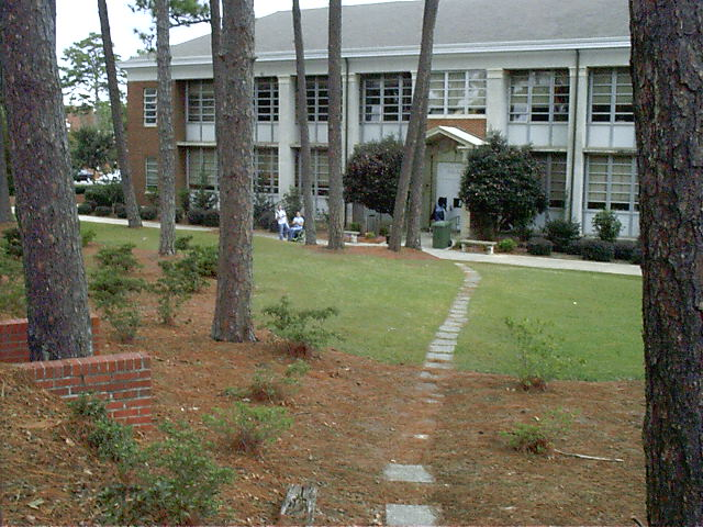 Middle Georgia College Dillard Hall, Cochran, Georgia. Author: Ronald Edward Daniels Taken October 2005.